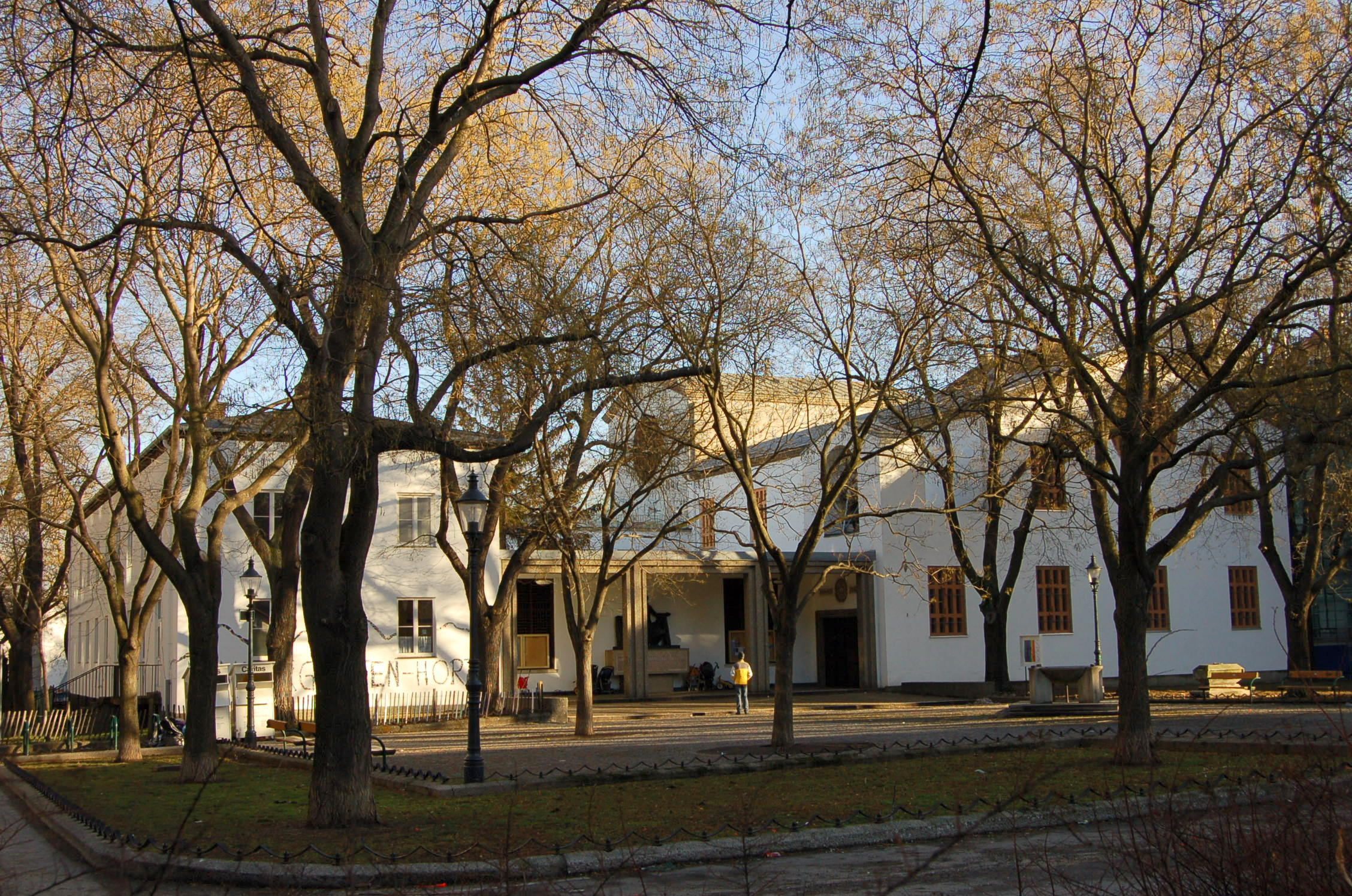 Christkönigskirche (Church of Christ the King), Burjanplatz, Vienna's 15th district